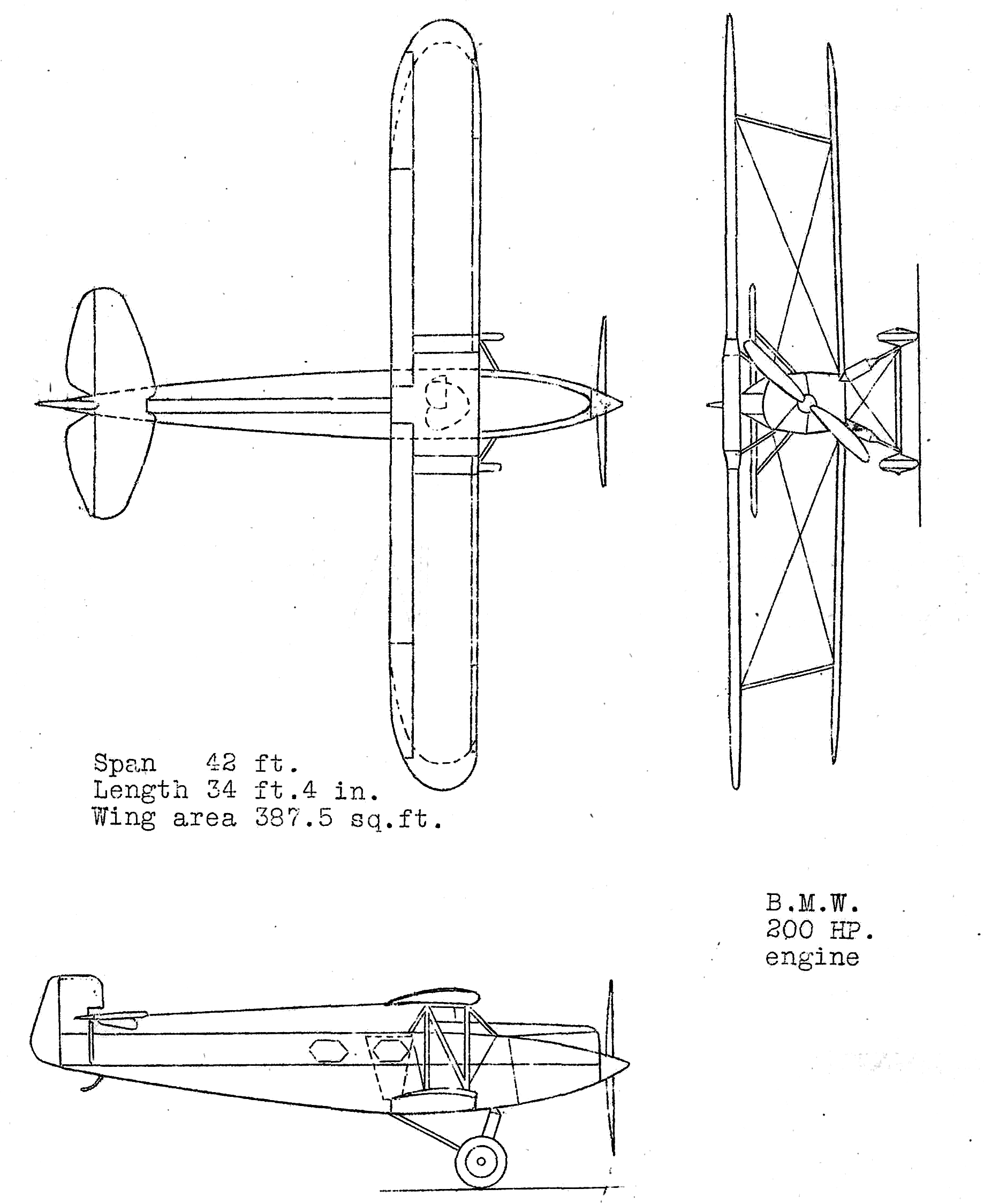 Albatros L 72A 3 view drawing from NACA Aircraft Circular No.8